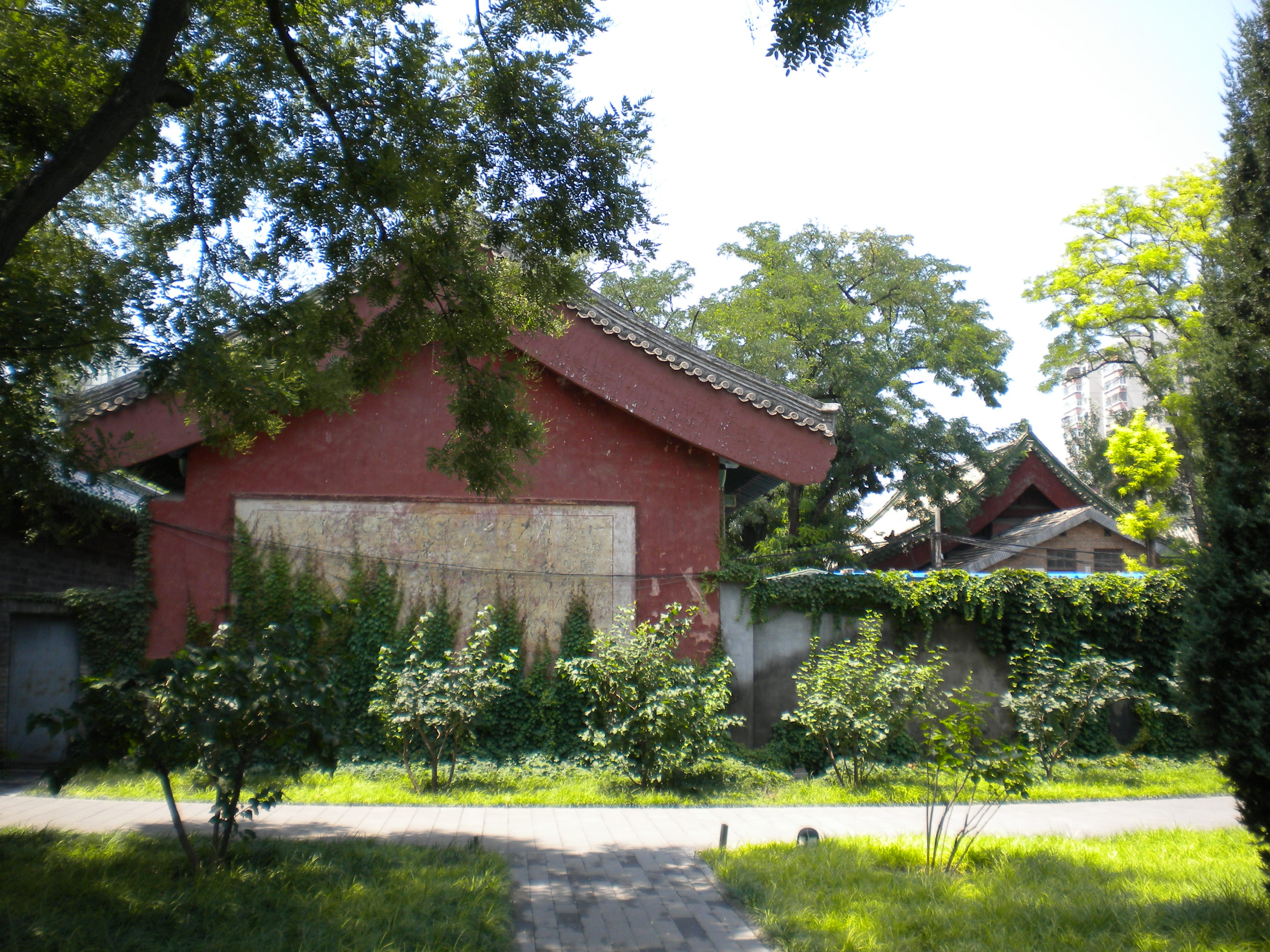 乐器库、祭器库/Storehouse of musical instruments and devices used in sacrifice (Temple of the Moon)